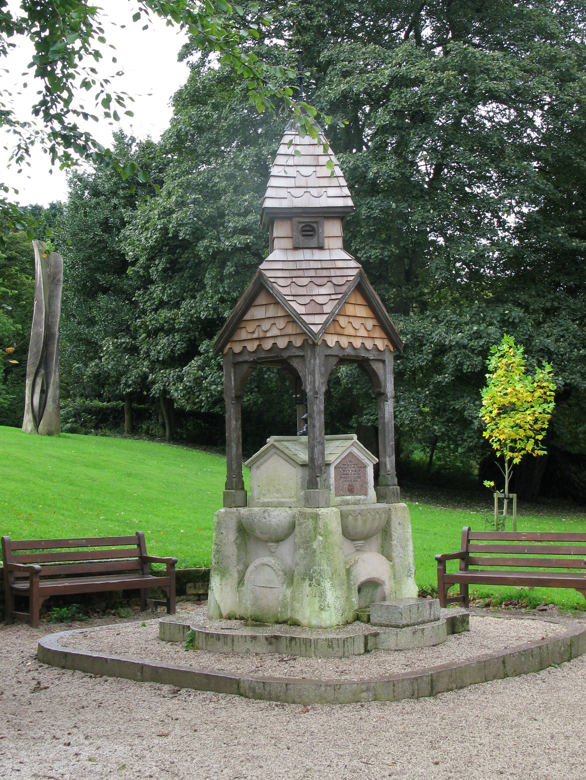 just up from the carpark